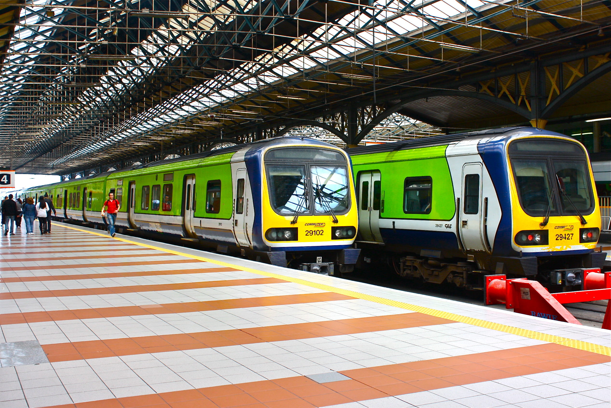 Dart Train at Connolly Station, Dublin.